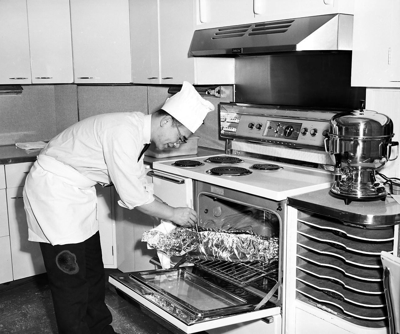 Elected in 1962, Wing Luke was Seattle's first Asian-American city councilmember. He served until 1965, when he died in a plane crash in the Cascade Mountains. Item 103106, Fleets and Facilities Department Imagebank Collection (Record Series 0207-01), Seattle Municipal Archives.